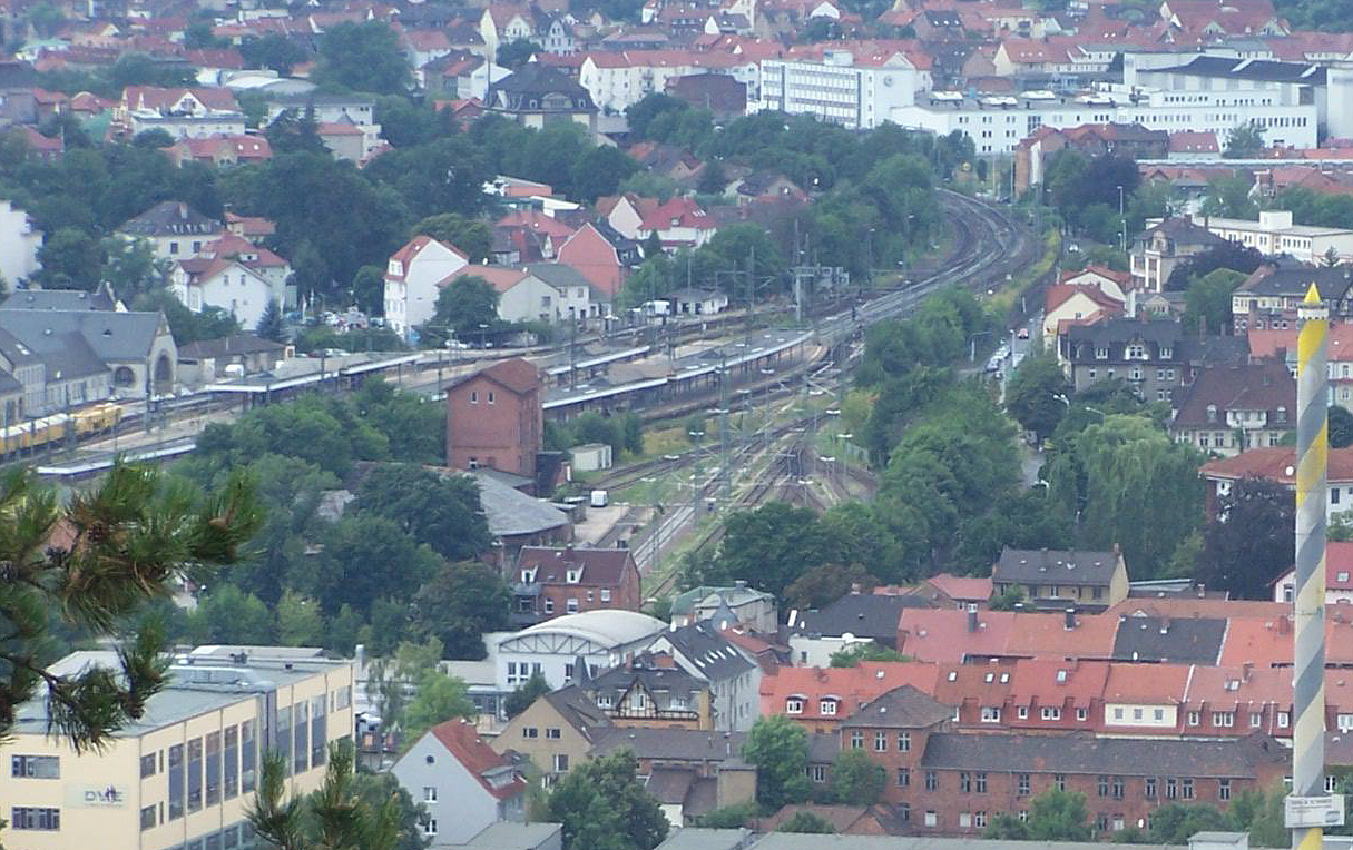 The main station in Eisenach.